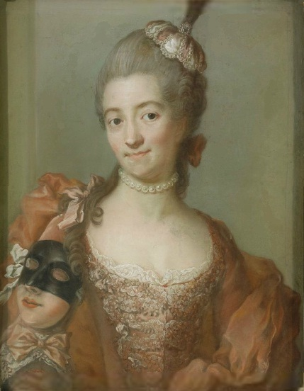 Portrait of Eva Helena Ribbing, née Löwen (1743-1813), wife of Fredrik Ribbing